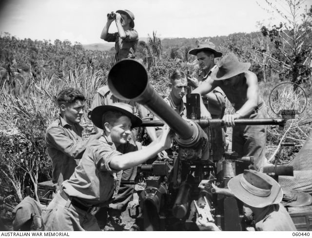 Kakakog, New Guinea. 1943-11-07. Troops of the 12th Battery, 2/4th Australian Light Anti-Aircraft Regiment doing maintenance on their 40mm Bofors Gun. Shown are: VX68580 Gunner W. H. Allen of Mordialloc, Vic, (1); NX39909 Gunner J. K. Walsh of Moree, NSW, (2); NX37307 Gunner C. J. Lucas of Bega, NSW, (3); NX44107 Gunner J. A. Waygood of Sydney, NSW, (4); NX38813 Gunner J. A. Brennan of Manly, NSW, (5); NX31287 Gunner T. E. Blanche of Moree, NSW, (6); NX38014 Lance Bombardier F. M. L. Wilson of Bourke, NSW, (7); VX57958 Sergeant F. J. Langland of Benalla, NSW, (8).